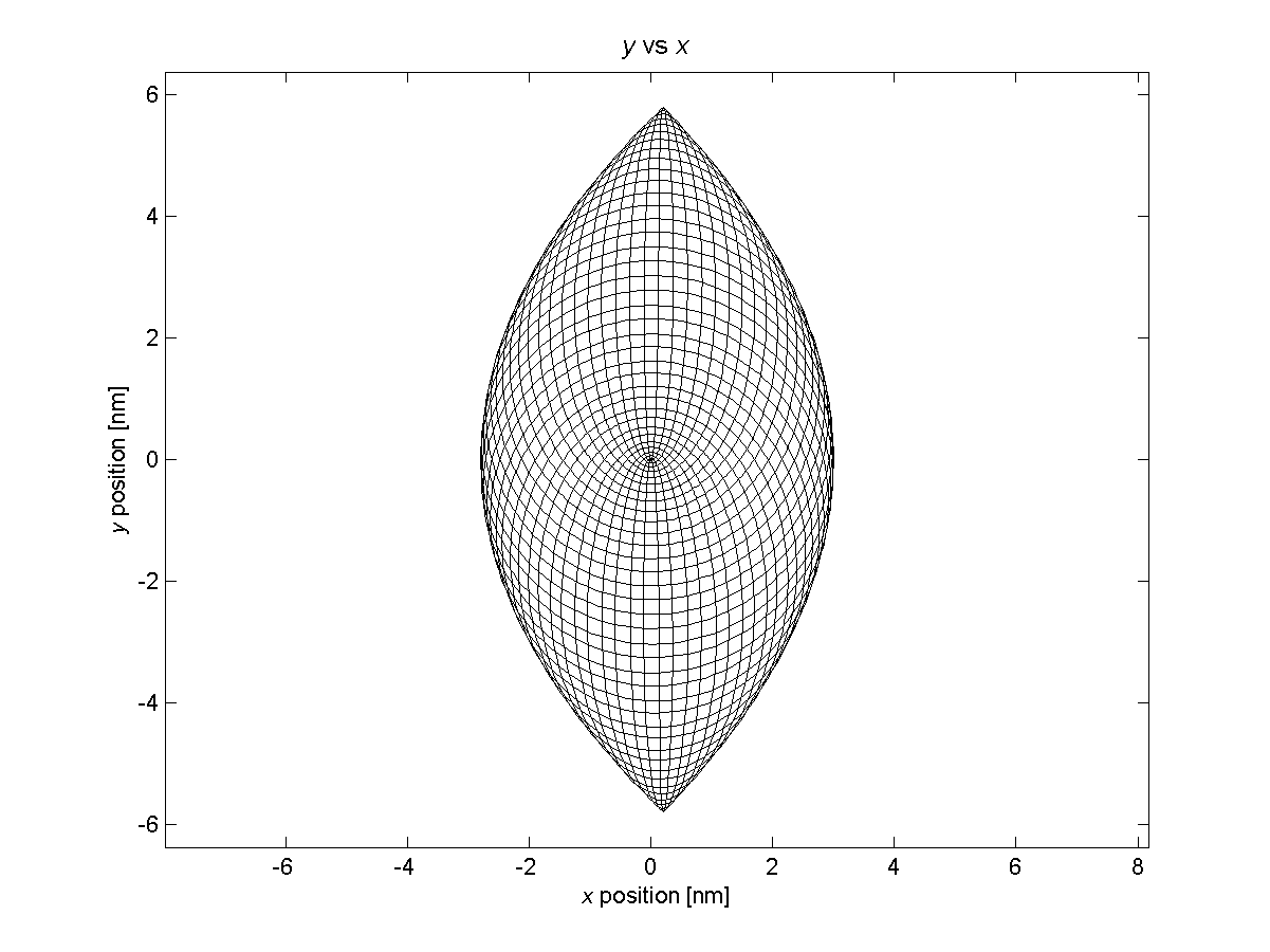 Description: Trajectory of the outer electron of a Rydberg atom under the influence of a static electric field in the positive x-direction Source: Created using MATLAB 6.5 Date: 30/12/05 Author: Jeffrey Philippson